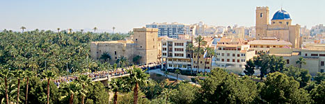 Palmeral of Elche